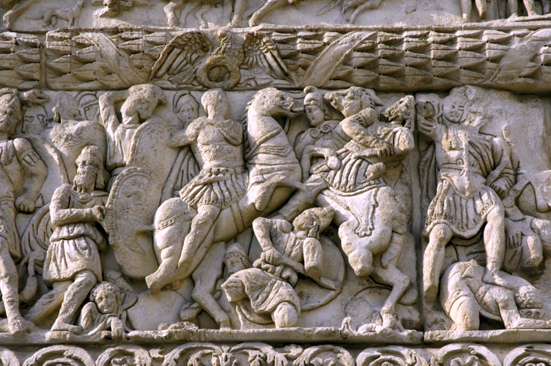 J. Matthew Harrington, personal digital image